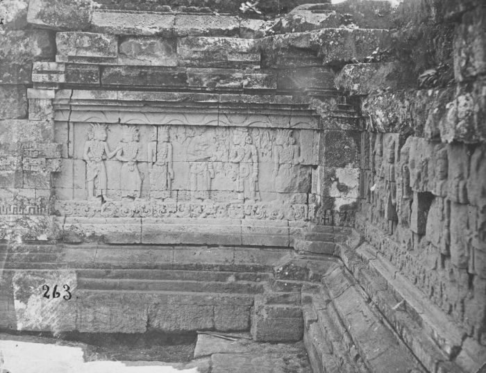 Low reliefs at the Candi Induk, Panataran temple complex